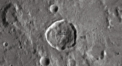 Godin lunar crater as seen from Earth with satellite craters labeled